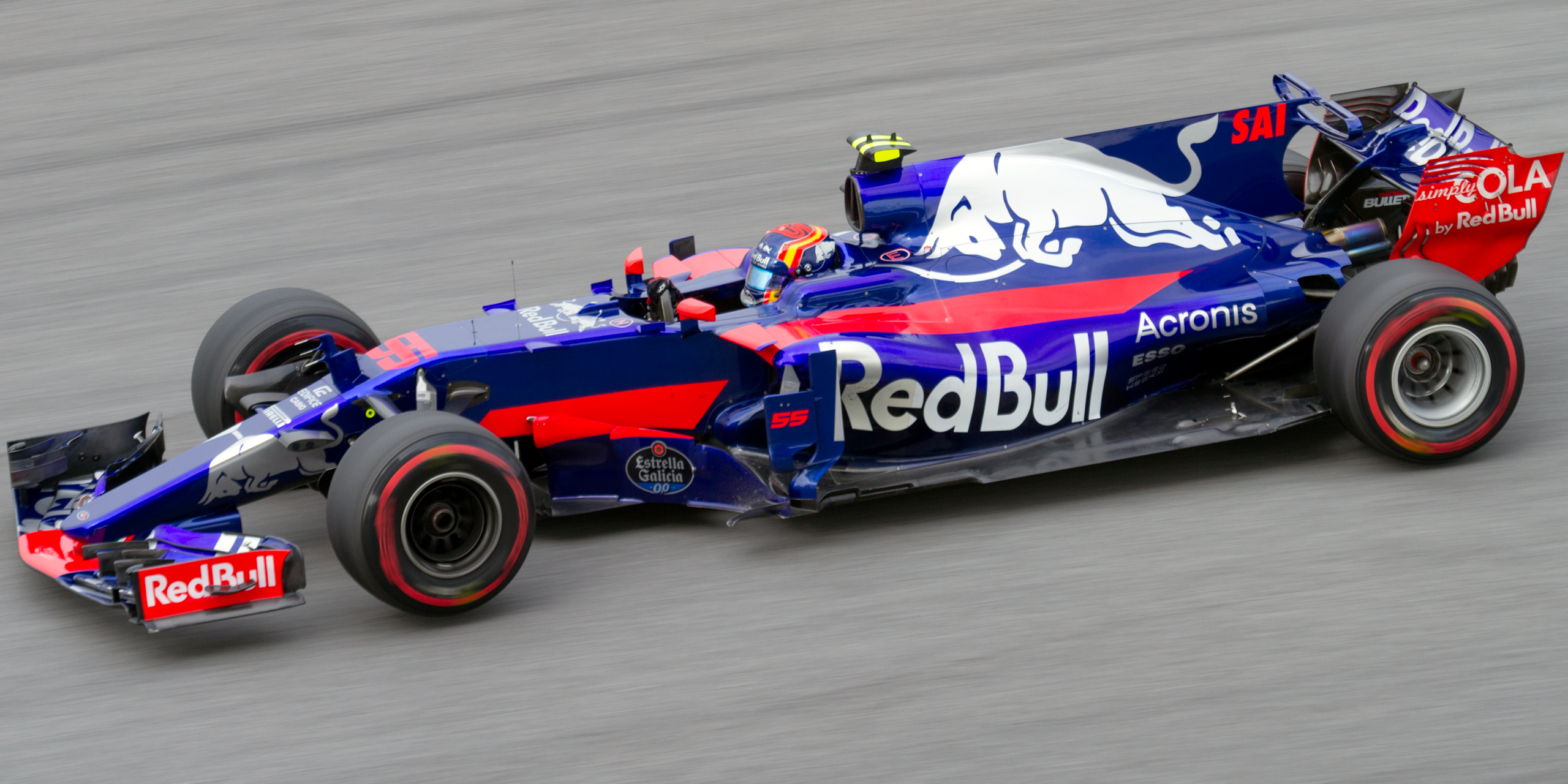 Formula One 2017 Round 15 Malaysian GP: Carlos Sainz Jr. (Toro Rosso)